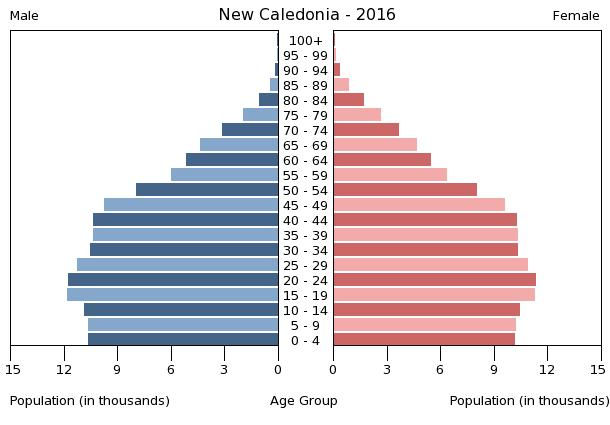 The population pyramid of New Caledonia illustrates the age and sex structure of population and may provide insights about political and social stability, as well as economic development. The population is distributed along the horizontal axis, with males shown on the left and females on the right. The male and female populations are broken down into 5-year age groups represented as horizontal bars along the vertical axis, with the youngest age groups at the bottom and the oldest at the top. The shape of the population pyramid gradually evolves over time based on fertility, mortality, and international migration trends.